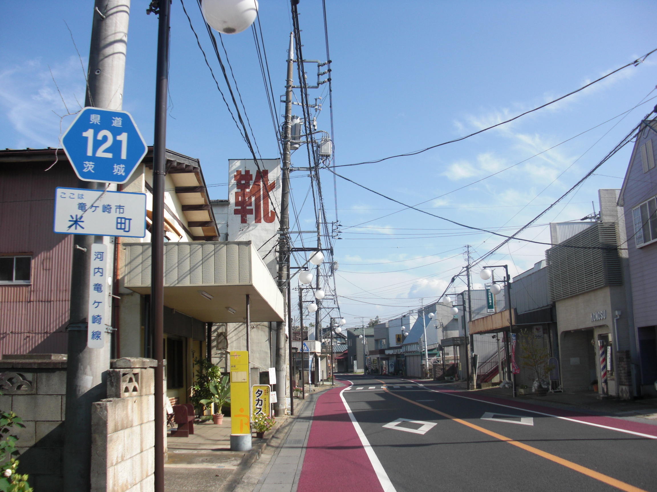 This is a scene of Ibaraki pref. road No.121 Ryugsaki Kawachi line in Ryugasaki ,Ibaraki, Japan.